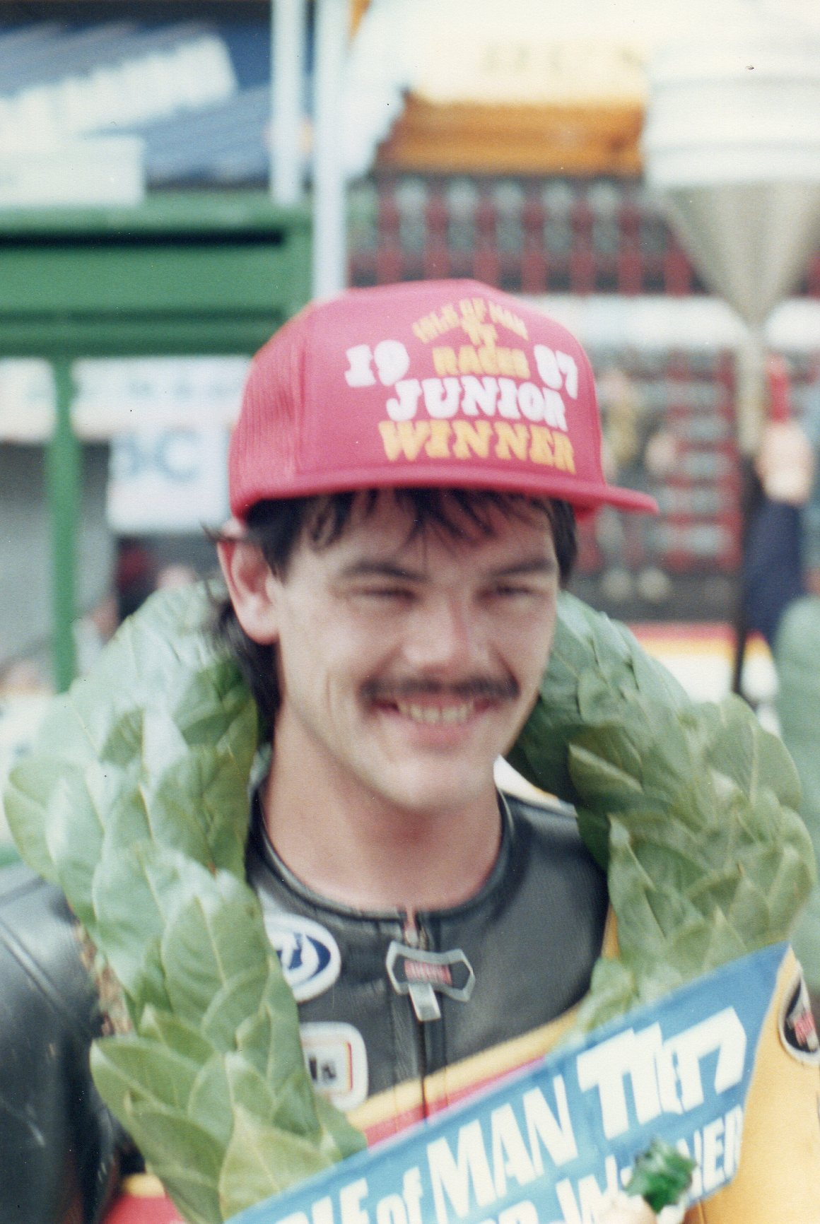 Eddie Laycock after podium ceremony Isle of Man Junior TT 1987